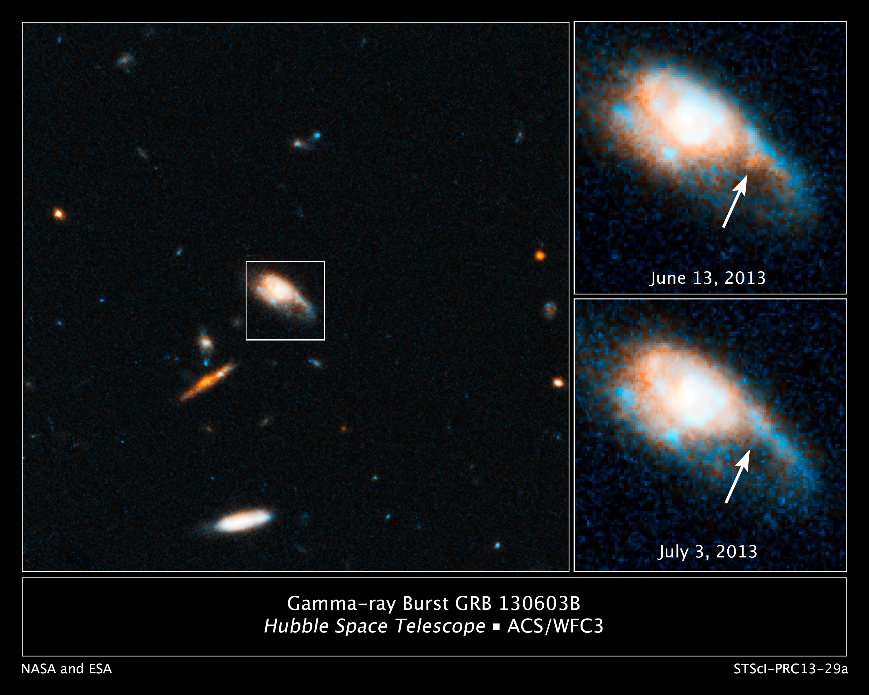 These images taken by the NASA/ESA Hubble Space Telescope reveal a new type of stellar explosion produced from the merger of two compact objects. Hubble spotted the outburst while looking at the aftermath of a short-duration gamma-ray burst, a mysterious flash of intense high-energy radiation that appears from random directions in space. Short-duration blasts last at most a few seconds. They sometimes, however, produce faint afterglows in visible and near-infrared light that continue for several hours or days and help astronomers to pinpoint the exact location of the burst. In the image on the left, the galaxy in the centre produced the gamma-ray burst, designated GRB 130603B. A probe of the galaxy with Hubble's Wide Field Camera 3 on June 13, 2013, revealed a glow in near-infrared light at the source of the gamma-ray burst, shown in the top right image. When Hubble observed the same location on July 3, the source had faded, shown in the below right image. The fading glow provided key evidence that it was the decaying fireball of a new type of stellar blast called a "kilonova". Kilonovas are about 1000 times brighter than a nova, which is caused by the eruption of a white dwarf. But they are 1/10th to 1/100th the brightness of a typical supernova, the self-detonation of a massive star.